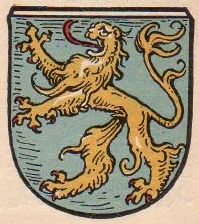 Coat of arms of Fürstenberg an der Oder